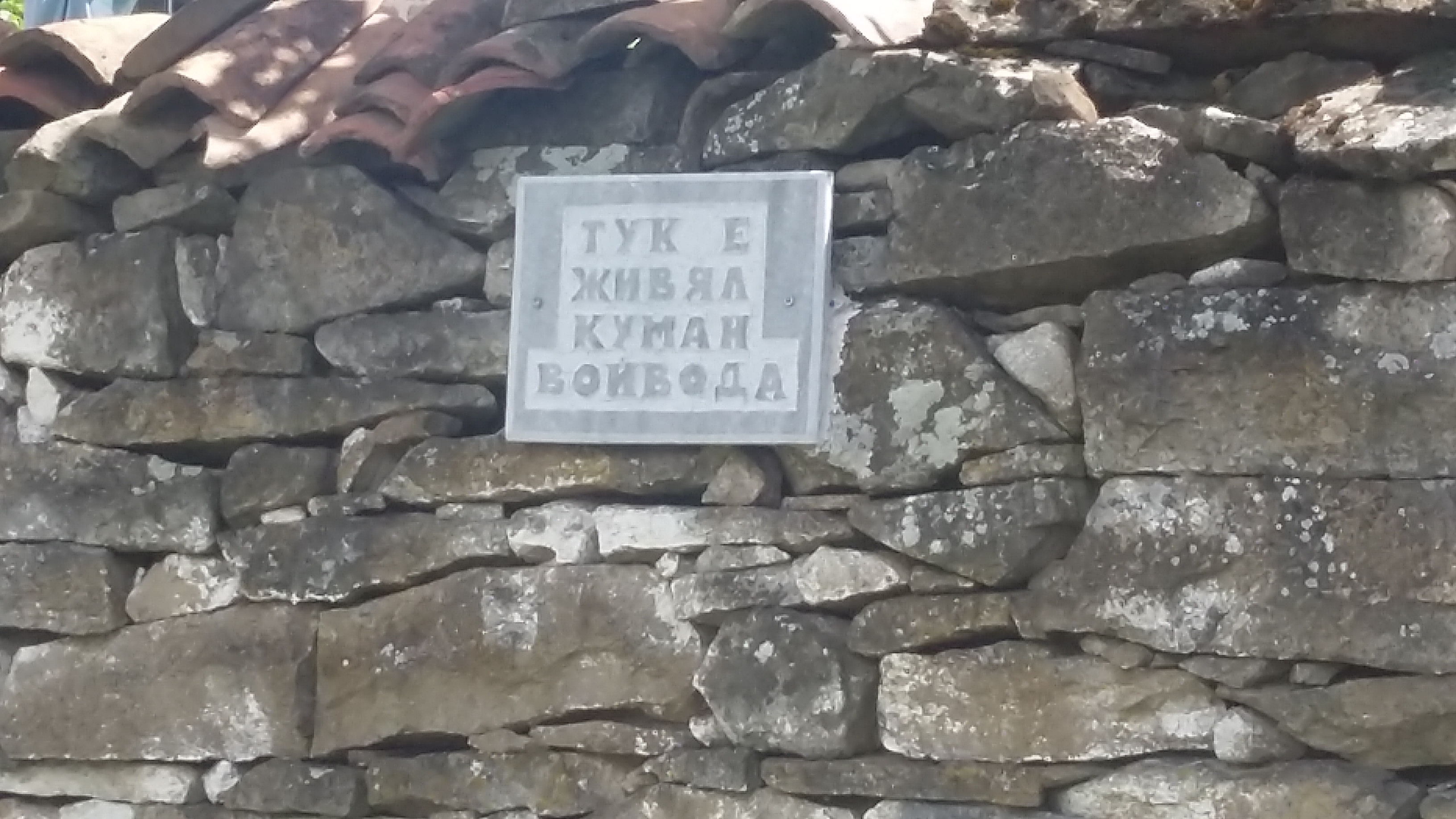 Memory stone of Kuman Voivoda, placed on his old house.